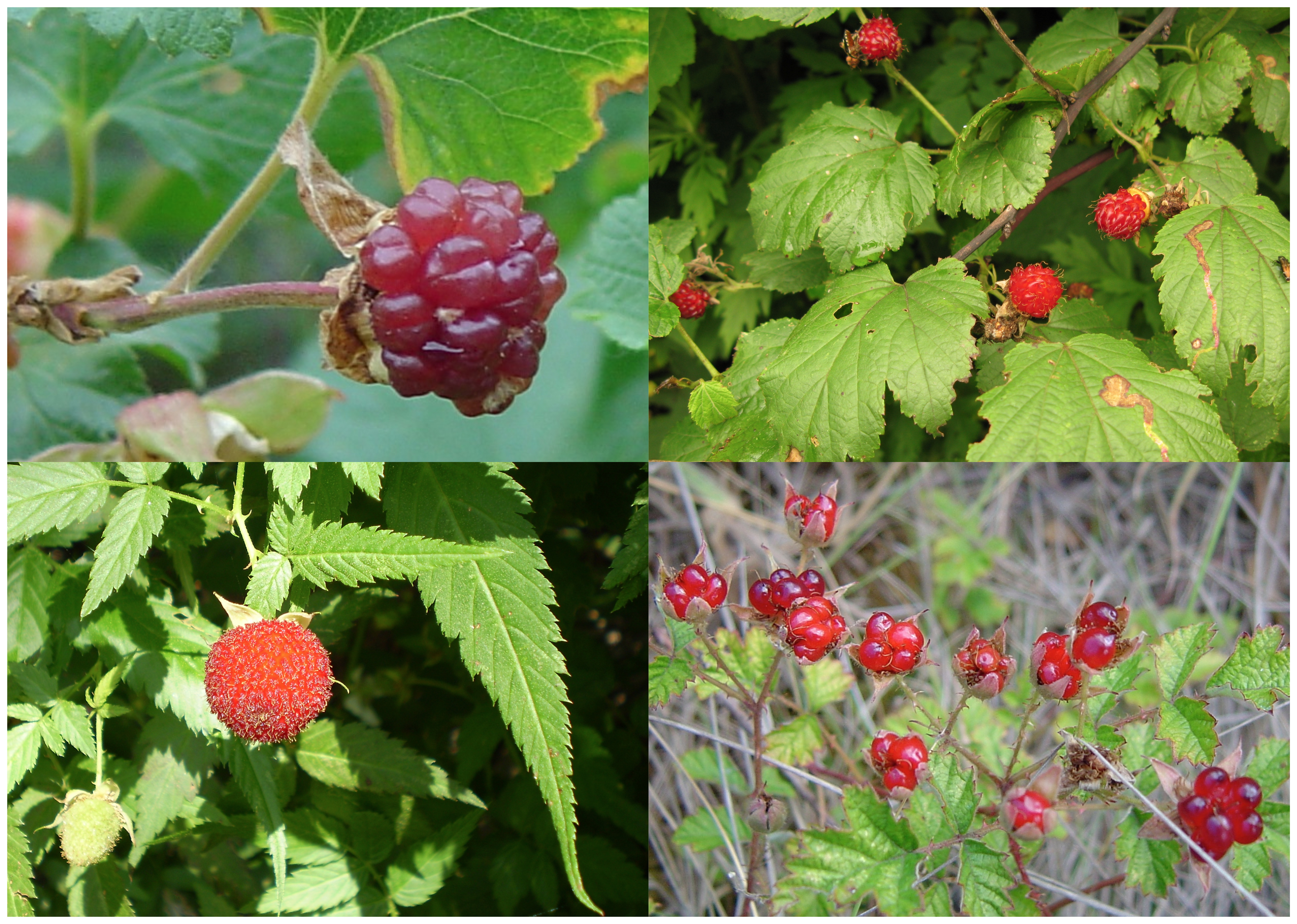 Clockwise from top left: Rubus_deliciosus, Rubus crataegifolius, Rubus parvifolius, Rubus_rosifolius Other components of the image are